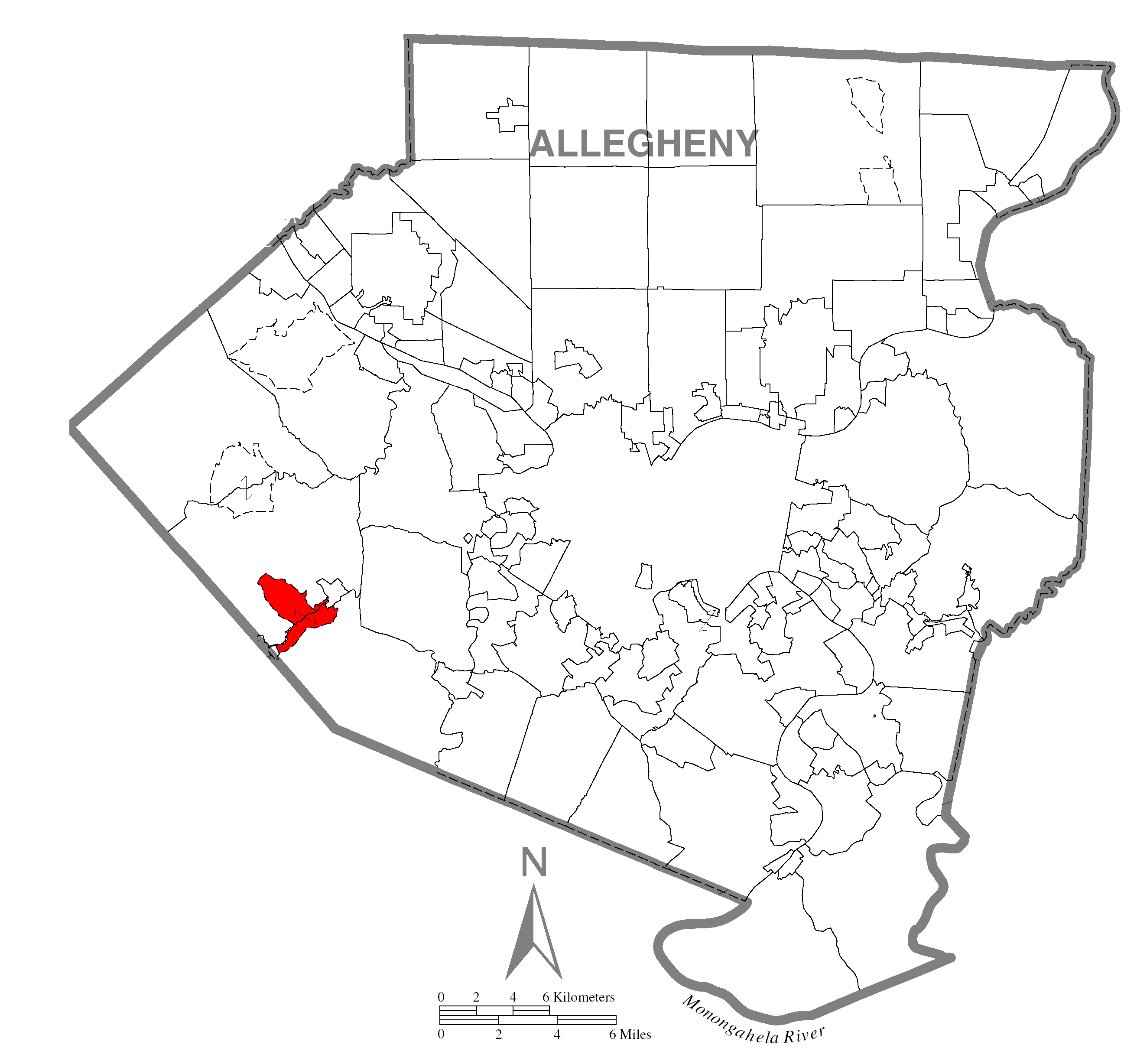 A map of Allegheny County showing Sturgeon-Noblestown, Pennsylvania (alternate) highlighted on the map.